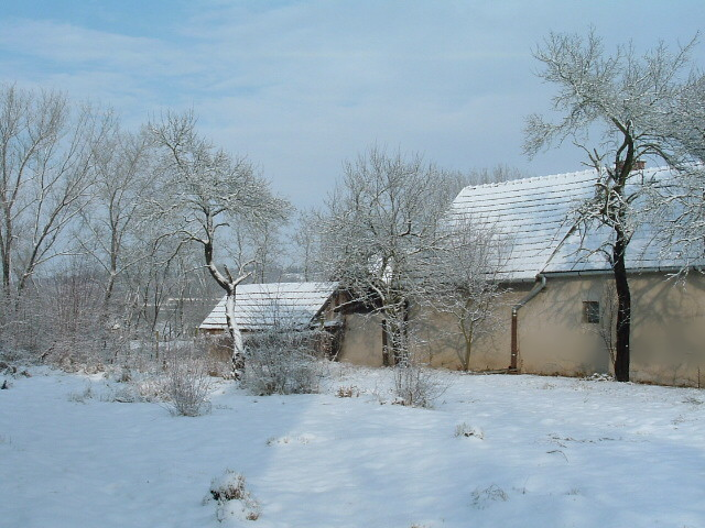 Winter mood in the village